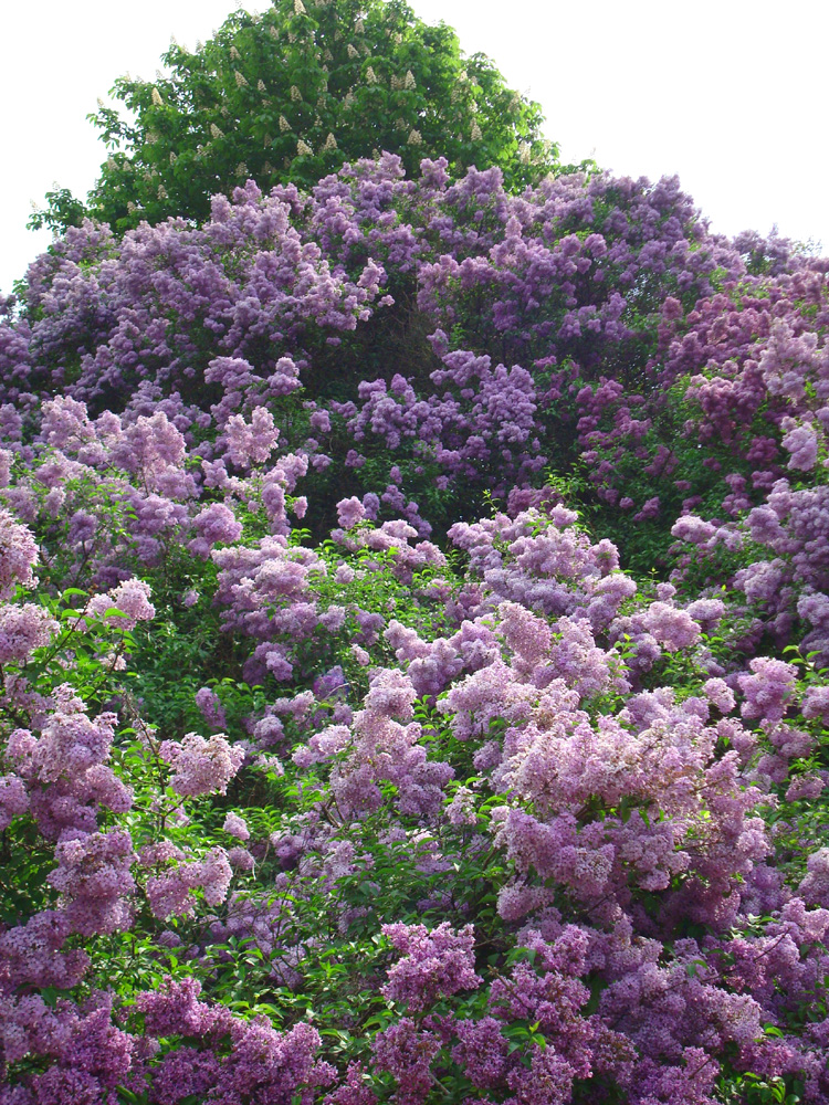 National M. M. Grishko botanical garden (Kiev, Ukraine), Syringarium